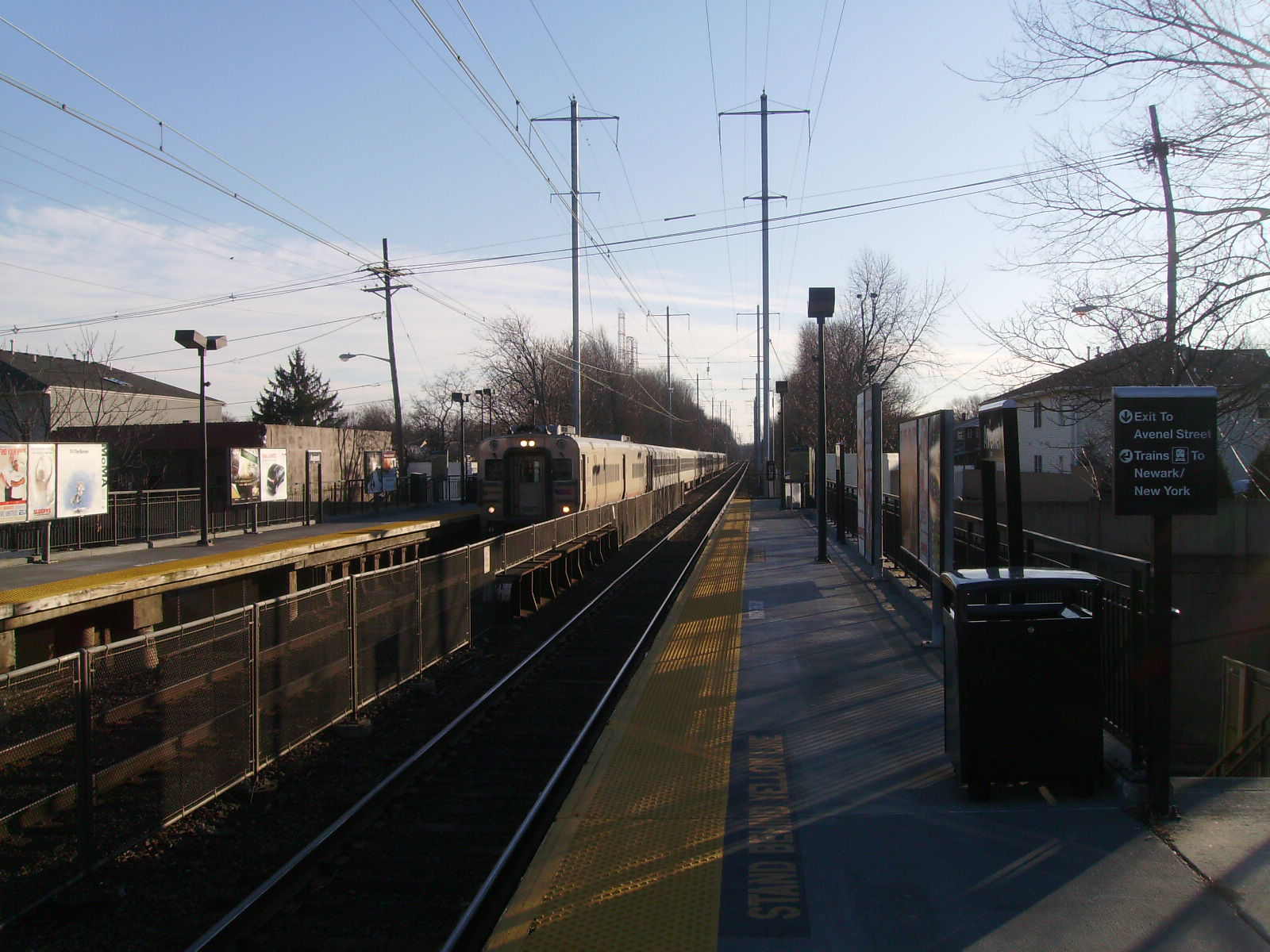 The Avenel New Jersey Transit station facing towards the Woodbridge Station direction. Avenel Station does not receive train service on weekends as the train visible is heading from Woodbridge to Rahway Station.